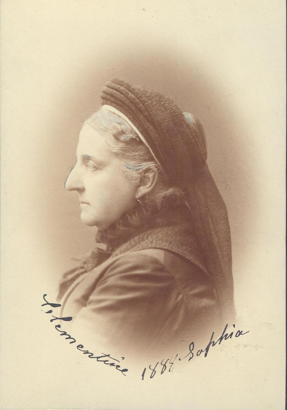 Clémentine of Orléans (1817-1907)